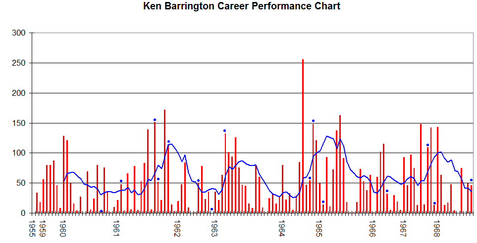 This graph details the Test Match performance of Ken Barrington. It was created by Raven4x4x. The red bars indicate the player's test match innings, while the blue line shows the average of the ten most recent innings at that point. Note that this average cannot be calculated for the first nine innings. The blue dots indicate innings in which Barrington finished not-out. This graph was generated with Microsoft Excel 2002, using data from Cricinfo and .au.